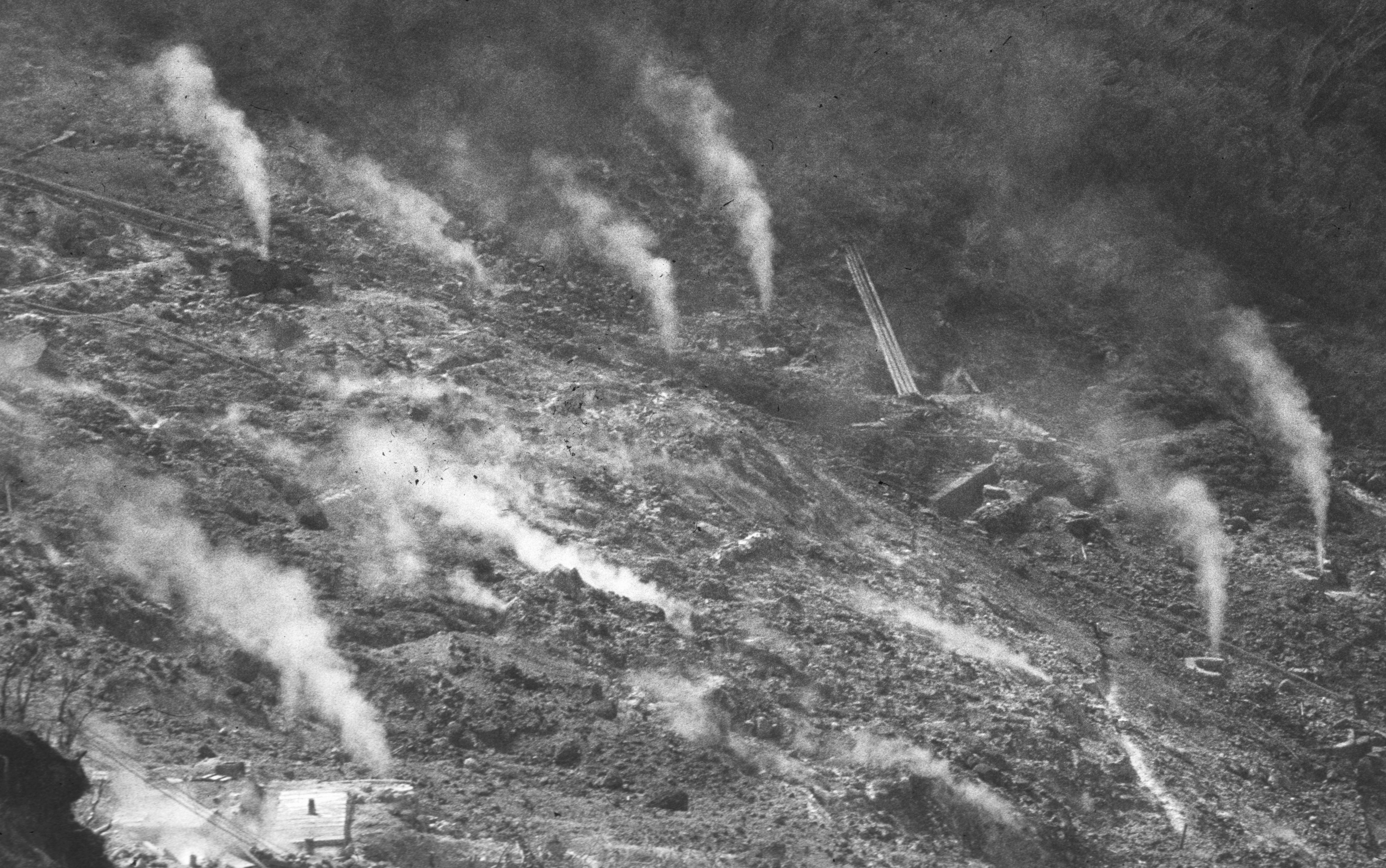 Ōwakudani, Hakone, Kanagawa Prefecture, Japan